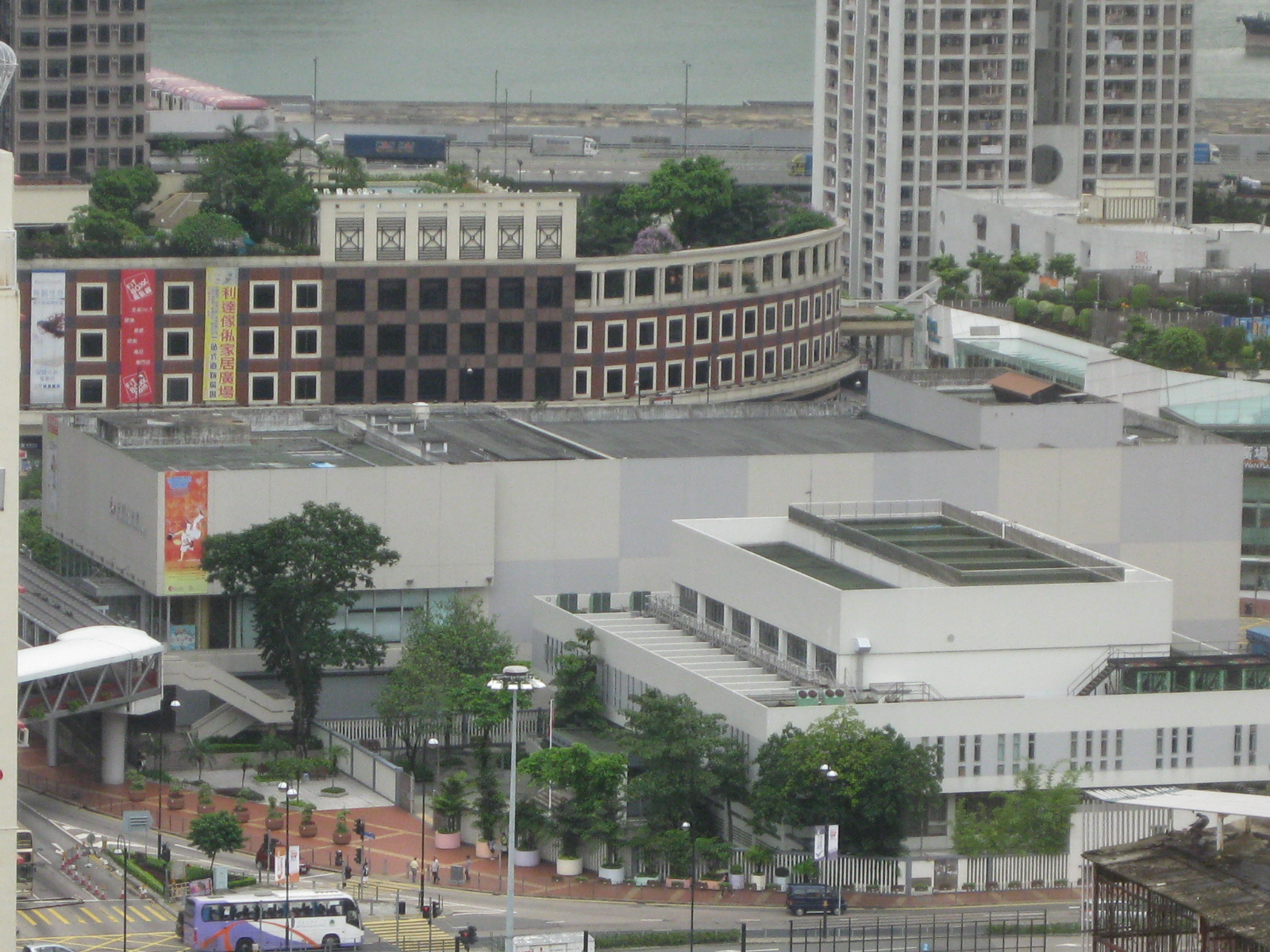 Tsuen Wan Town Hall overview,taken from Nan Fung Centre